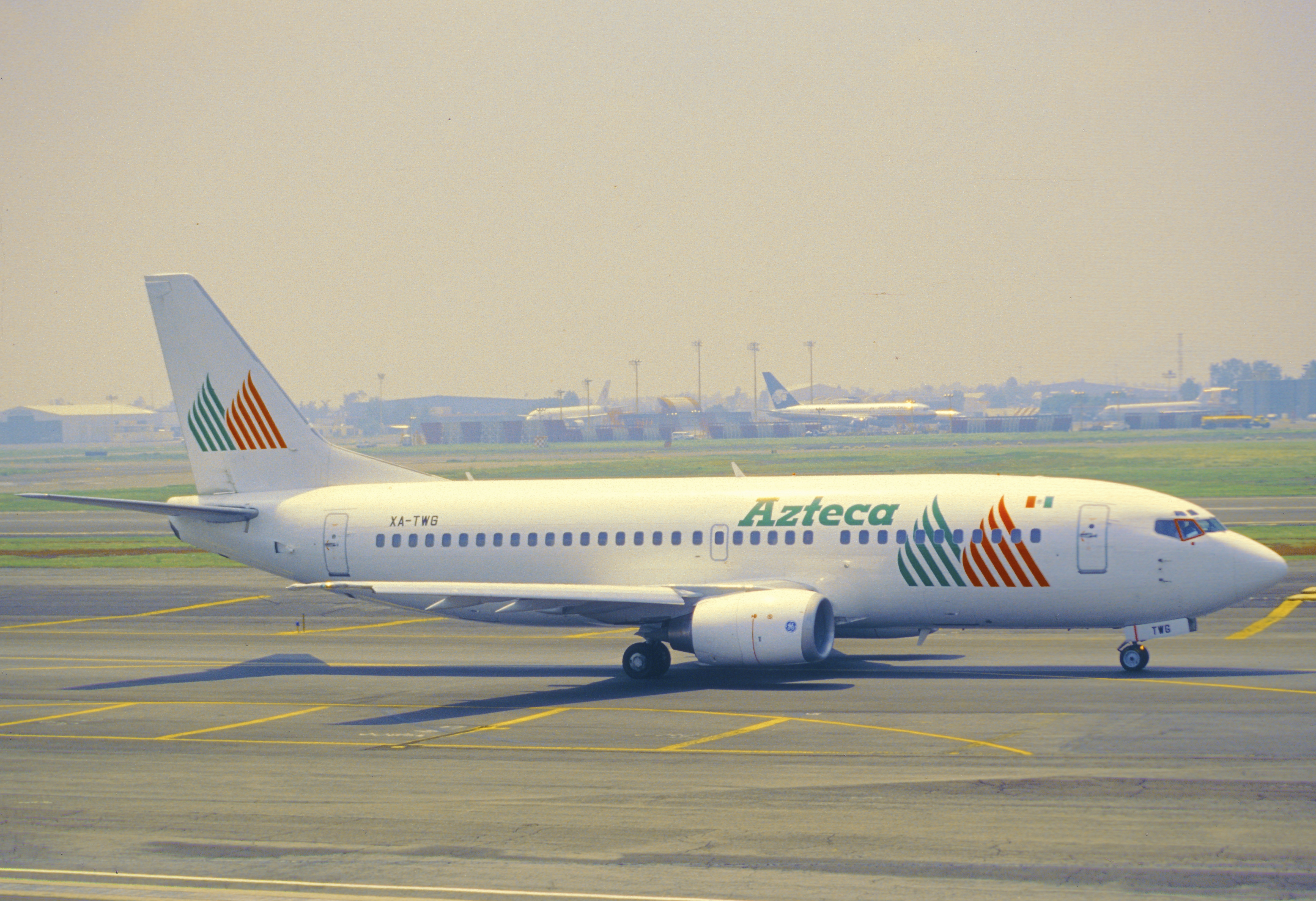 This Boeing 737-3K2 took its first flight on February 4, 1986...(c/n 23412/ 1198) 17/03/1986 Transavia Airlines PH-HVG 10/11/1993 TAESA XA-SLK 27/04/1994 Transavia Airlines PH-HVG 16/11/1994 TAESA XA-STN 22/04/1995 Transavia Airlines PH-HVG 20/12/1995 TAESA XA-STN 24/04/1996 Transavia Airlines PH-HVG 01/12/1996 TAESA XA-STN 14/04/1997 Transavia Airlines PH-HVG 31/10/1998 Air Toulouse PH-HVG 29/03/1999 Transavia Airlines PH-HVG 01/12/1999 PALS N945PG 24/06/2000 Euro Sun TC-ESB 22/06/2001 Air Anatolia TC-ESB 11/01/2002 PALS N551FA 27/11/2002 Lineas Aereas Azteca XA-TWG stored 06/2007